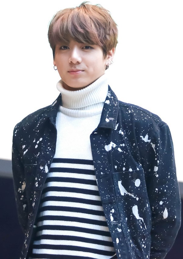 Jeon Jung-kook at a fanmeet in Myeongdong on February 24, 2017.